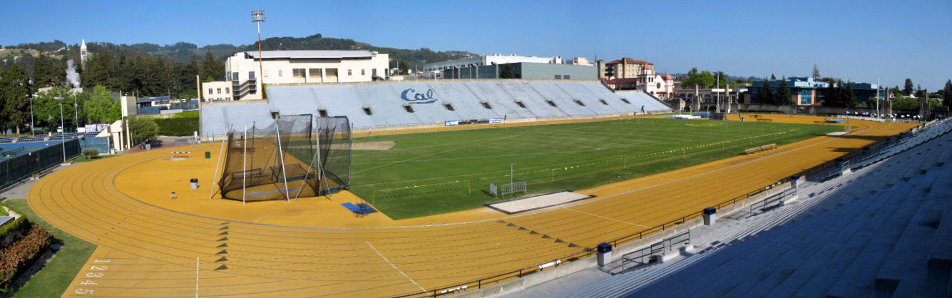 National Register of Historic Places listings in Alameda County, California. George C. Edwards Stadium, University of California, Berkeley. Photographed 2009-04-26 from the northwest corner of the grandstands.